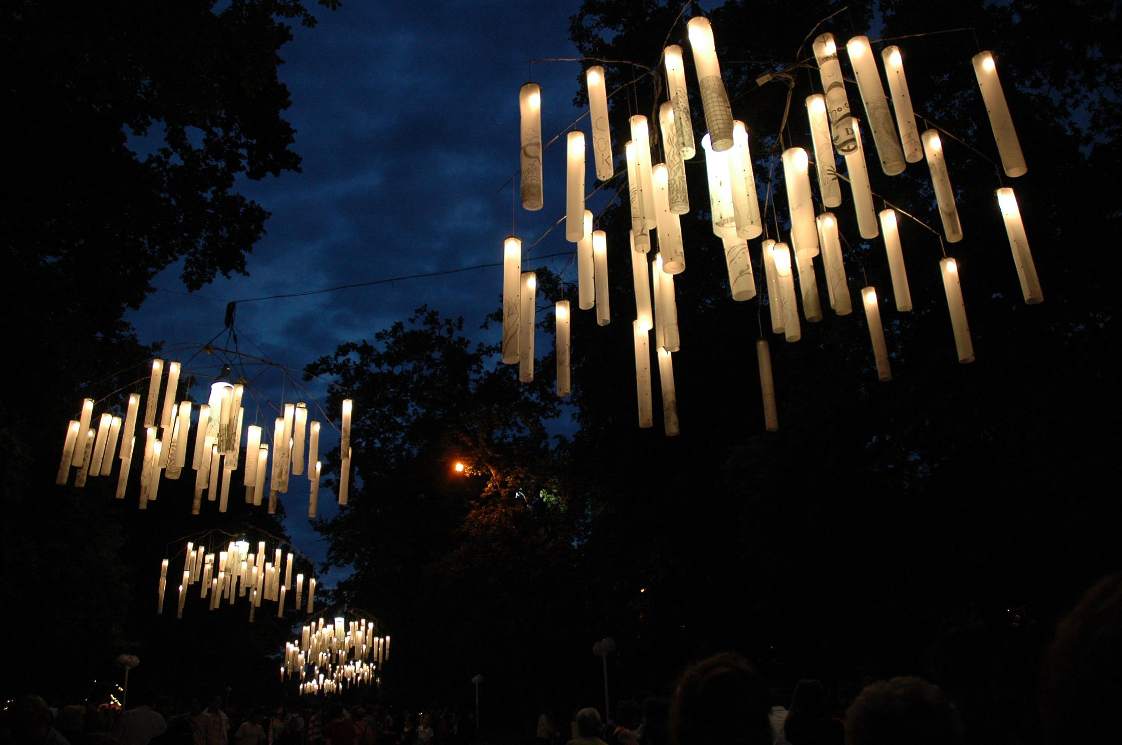 Wela: Light installation, public park, 500 designed tubes, Festival of Street Arts, Sotteville-lès-Rouen, 2006